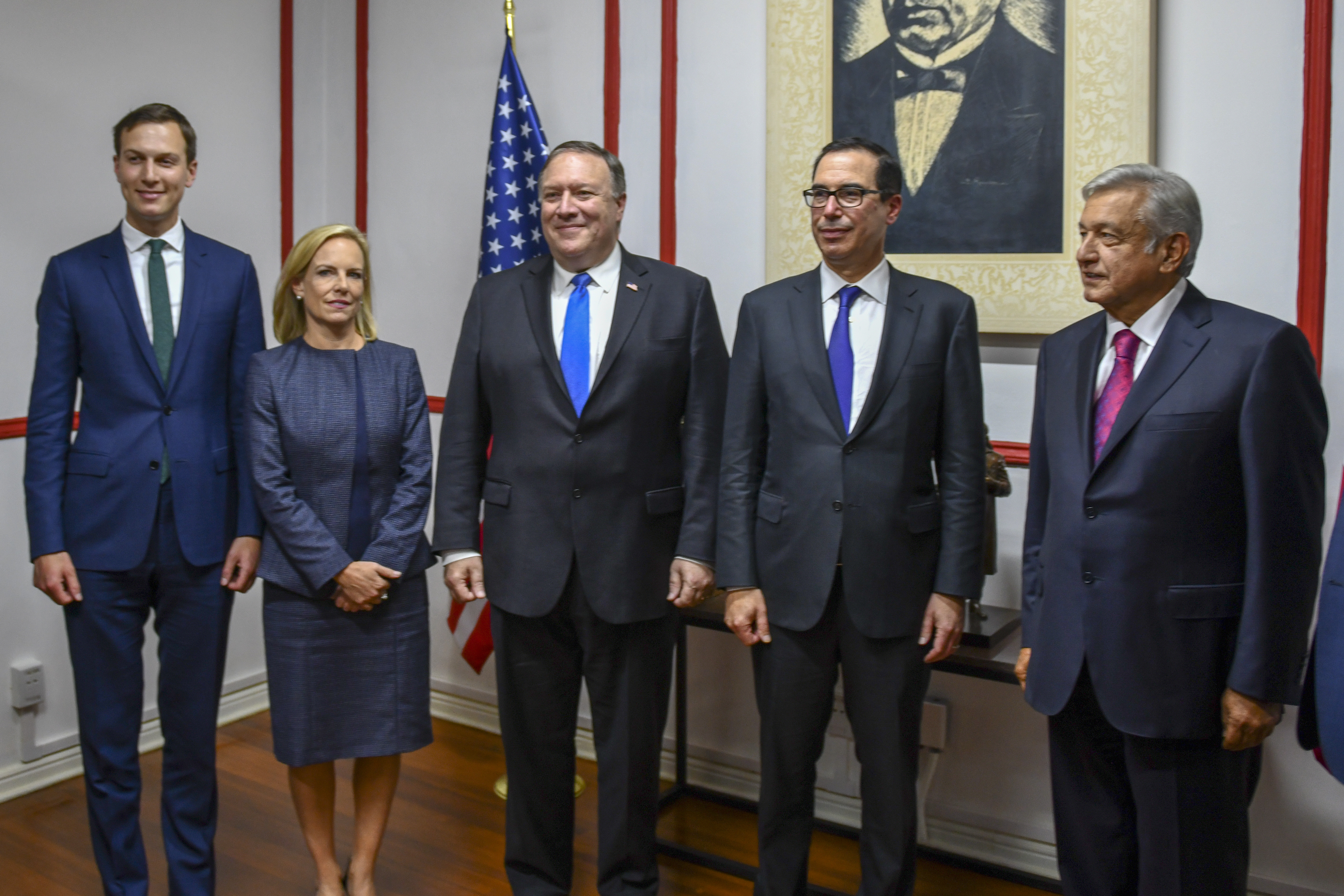 U.S. Secretary of State Michael R. Pompeo, U.S. Secretary of the Treasury Steven Mnuchin, Former U.S. Secretary of Homeland Security Kirstjen Nielsen and Senior Advisor to the President Jared Kushner meet with Mexican President-elect Andres Manuel Lopez Obrador in Mexico City, Mexico on July 13, 2018. [State Department photo/ Public Domain]